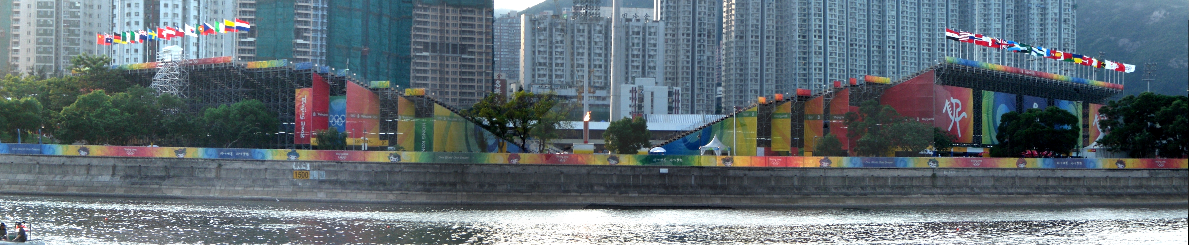 The outside of the venue of 2008 Summer Olympics Equestrian Event.